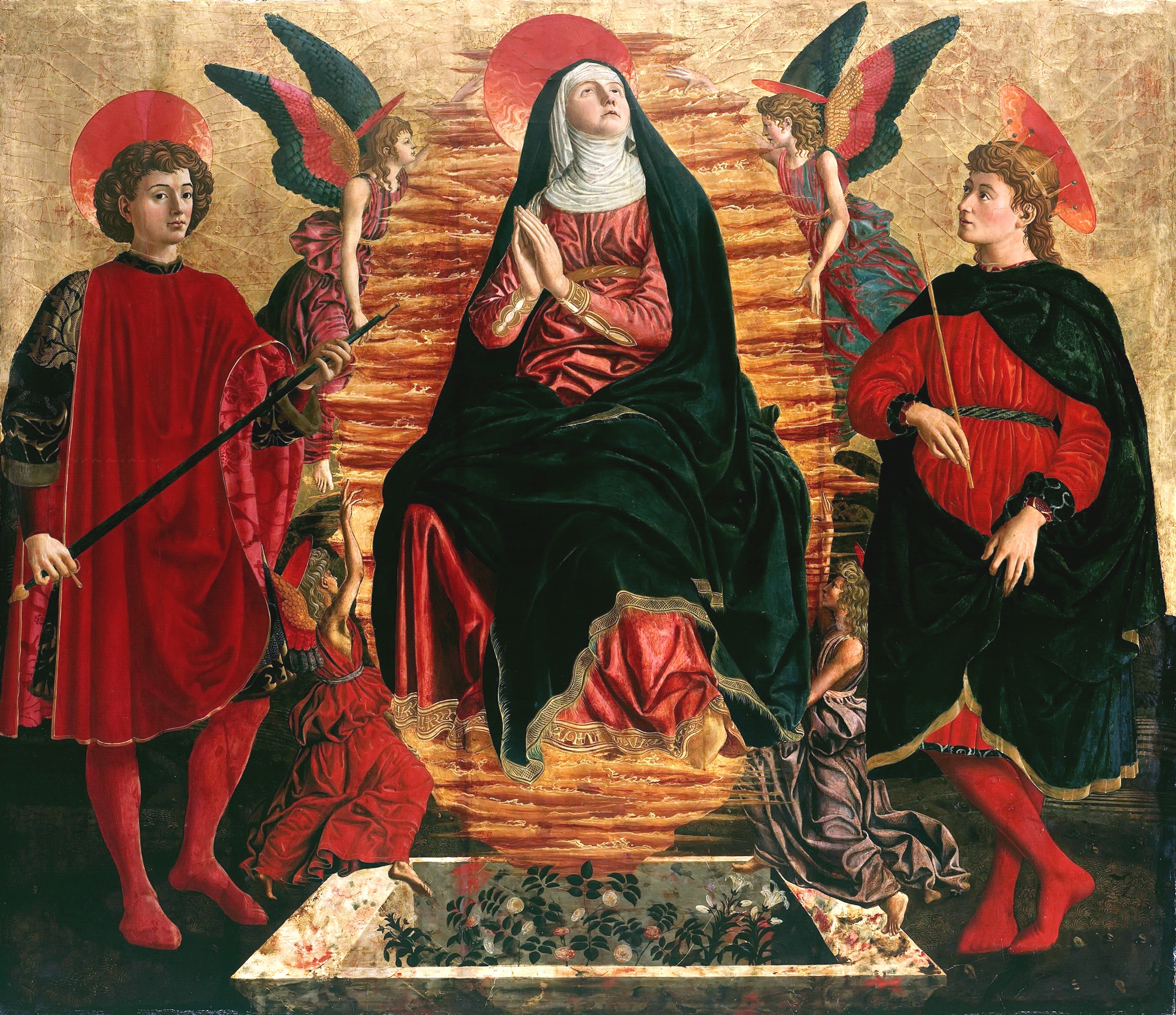 St. Minias to the right with a crown